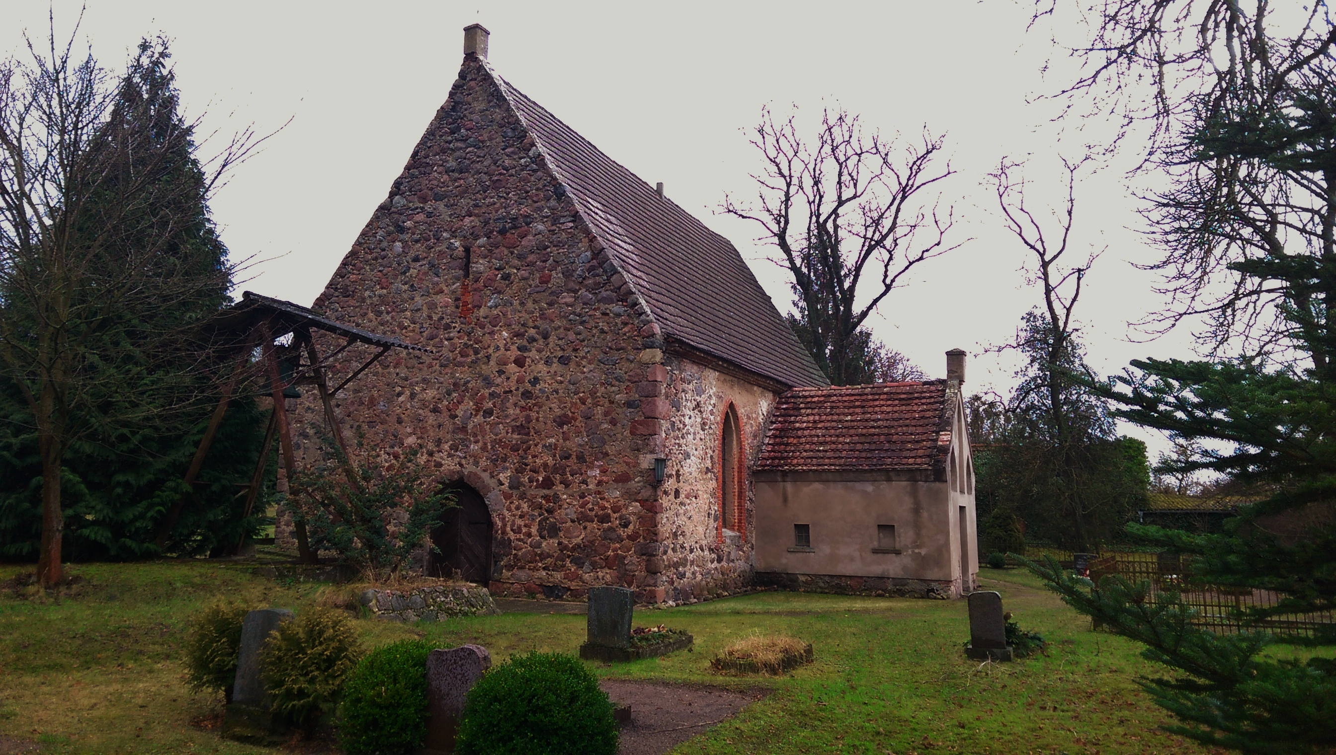 South-western view of church in Kummerow, Schwedt/Oder municipality, Uckermark district, Brandenburg state, Germany